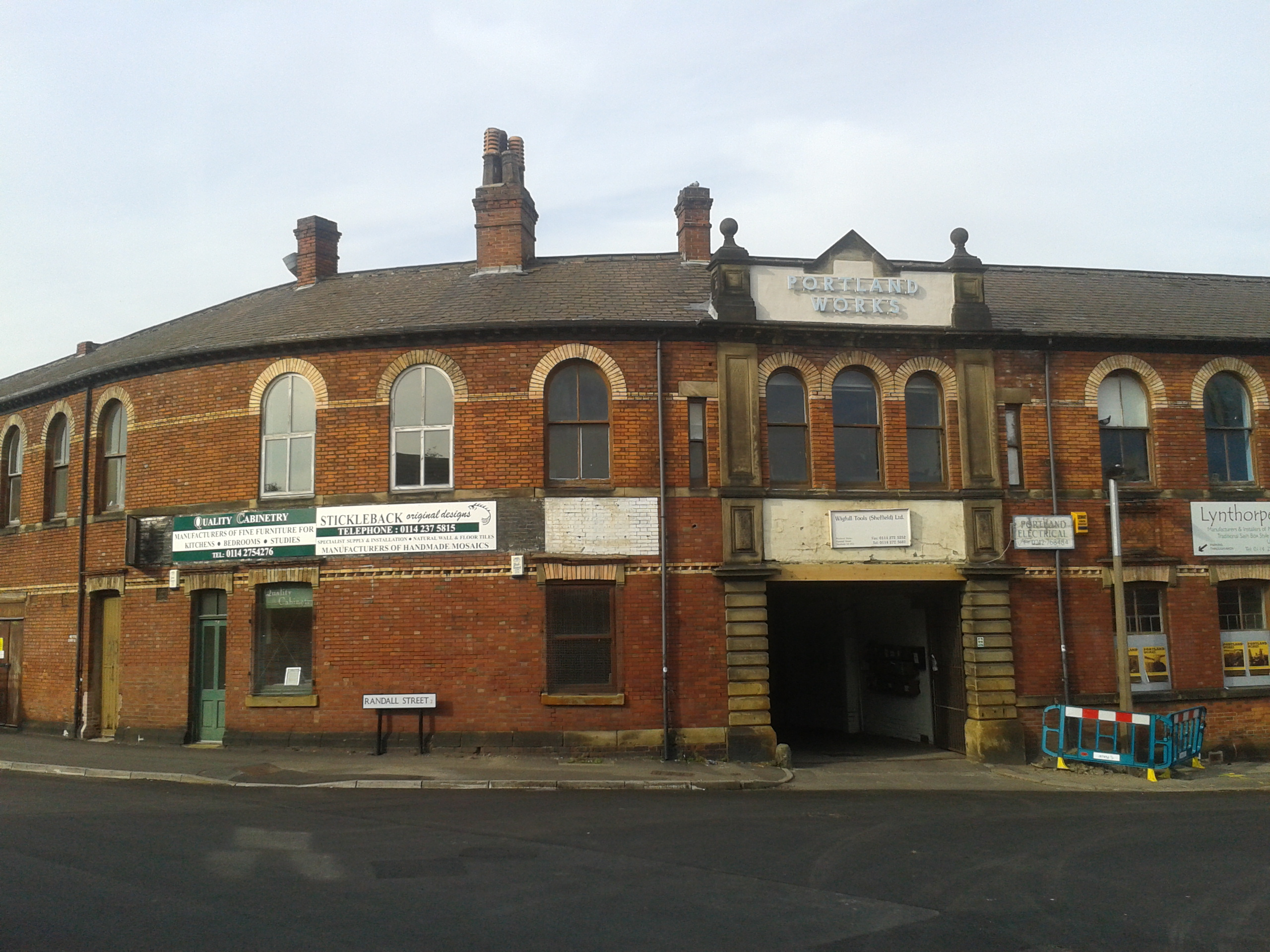 Portland Works, a Grade II* listed building on Randall Street in the Highfield area of Sheffield